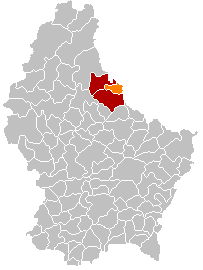 Own edit of Kanton ViandenLocatie.png